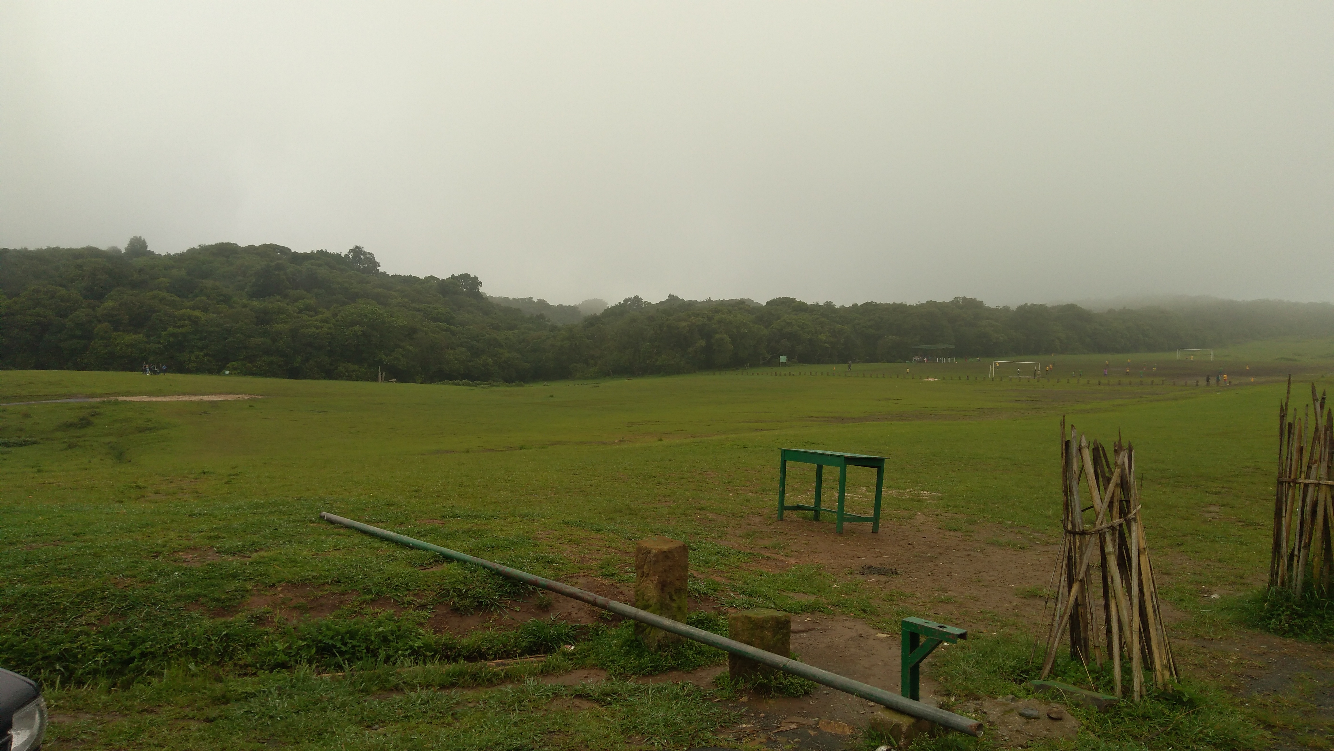 Mawphalang Sacred forests outside